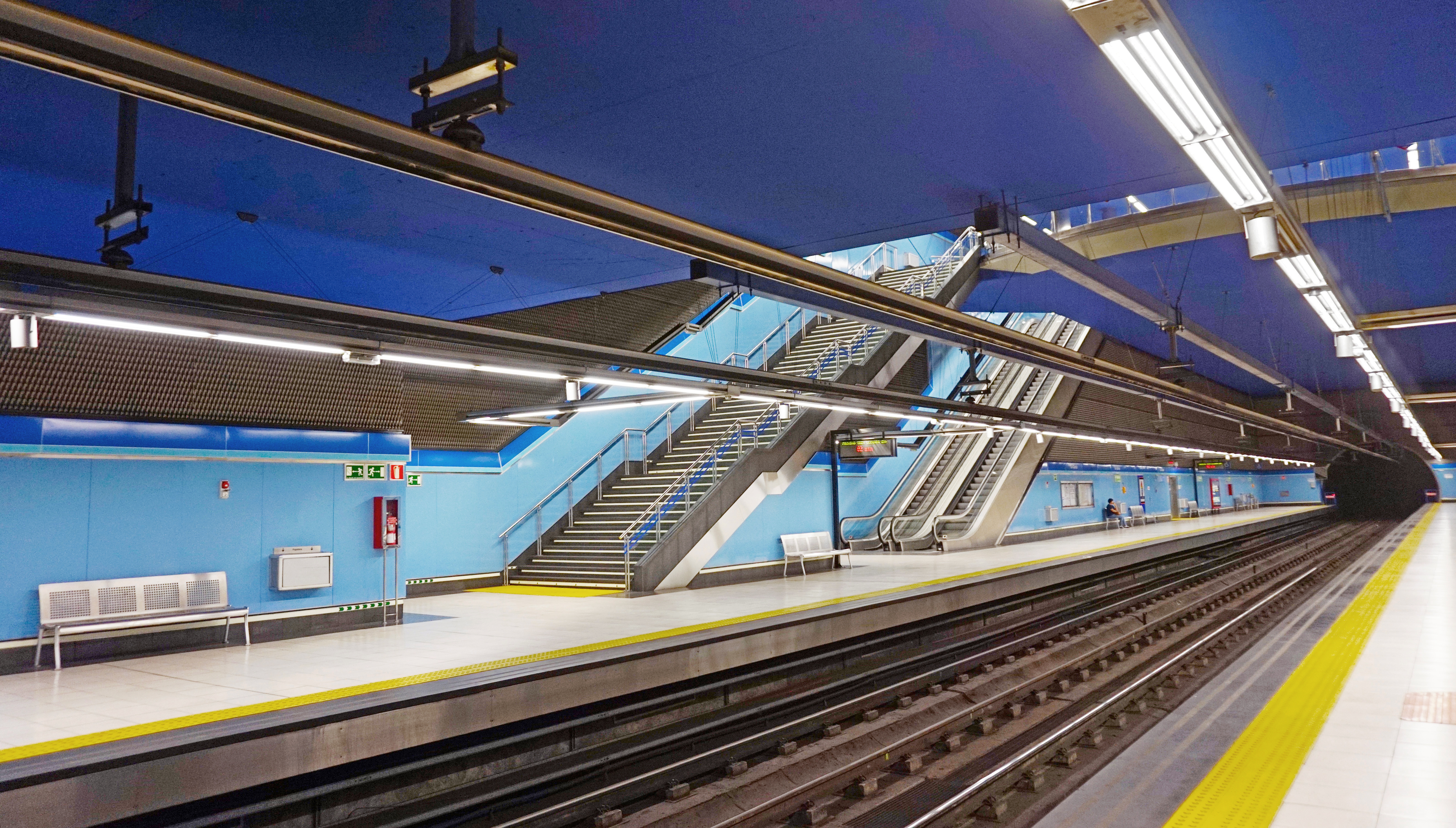 The metro station La Gavia, Madrid.